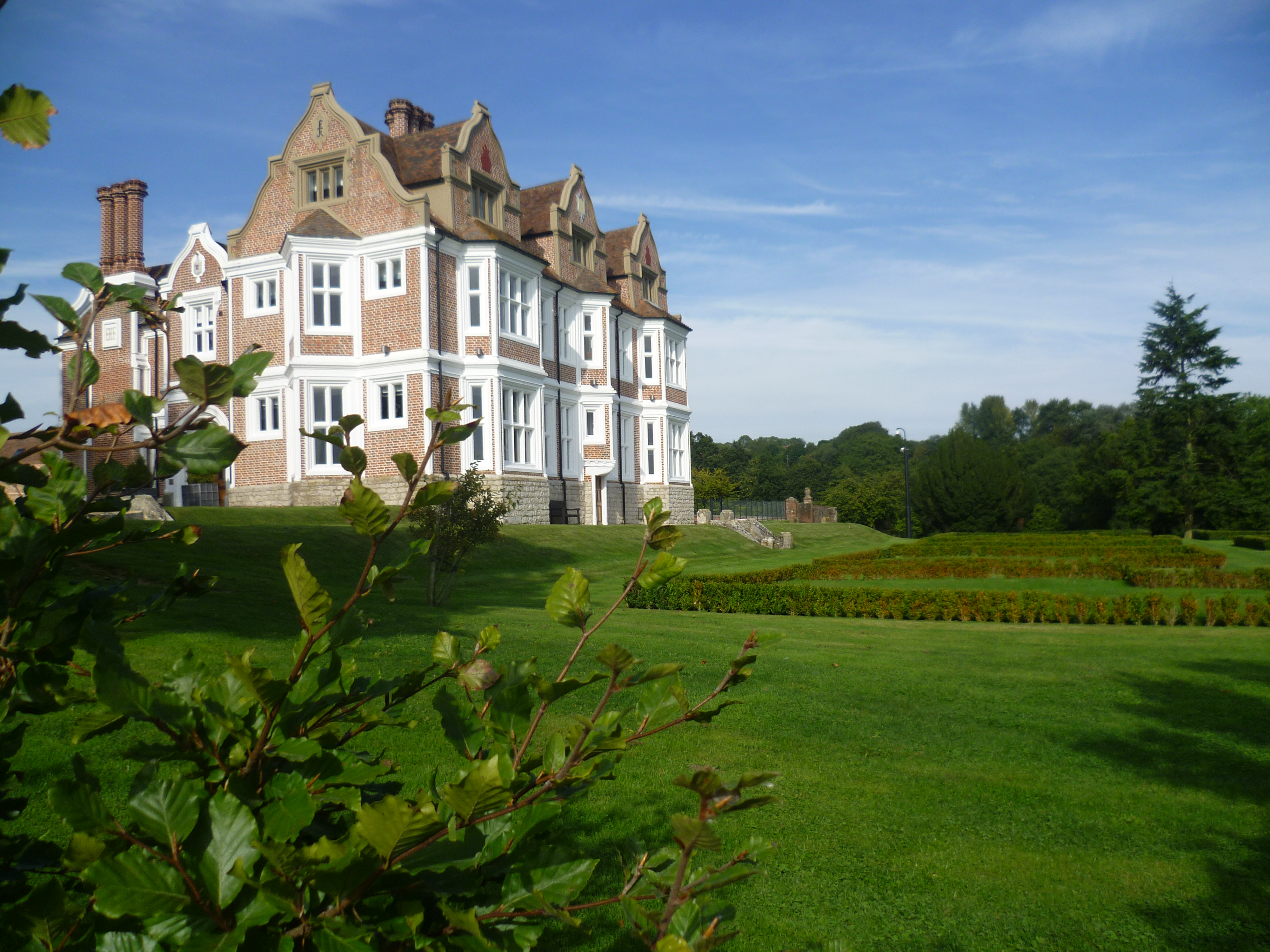 Charlton Court, a large country house located in East Sutton, Kent. It dates from 1662.